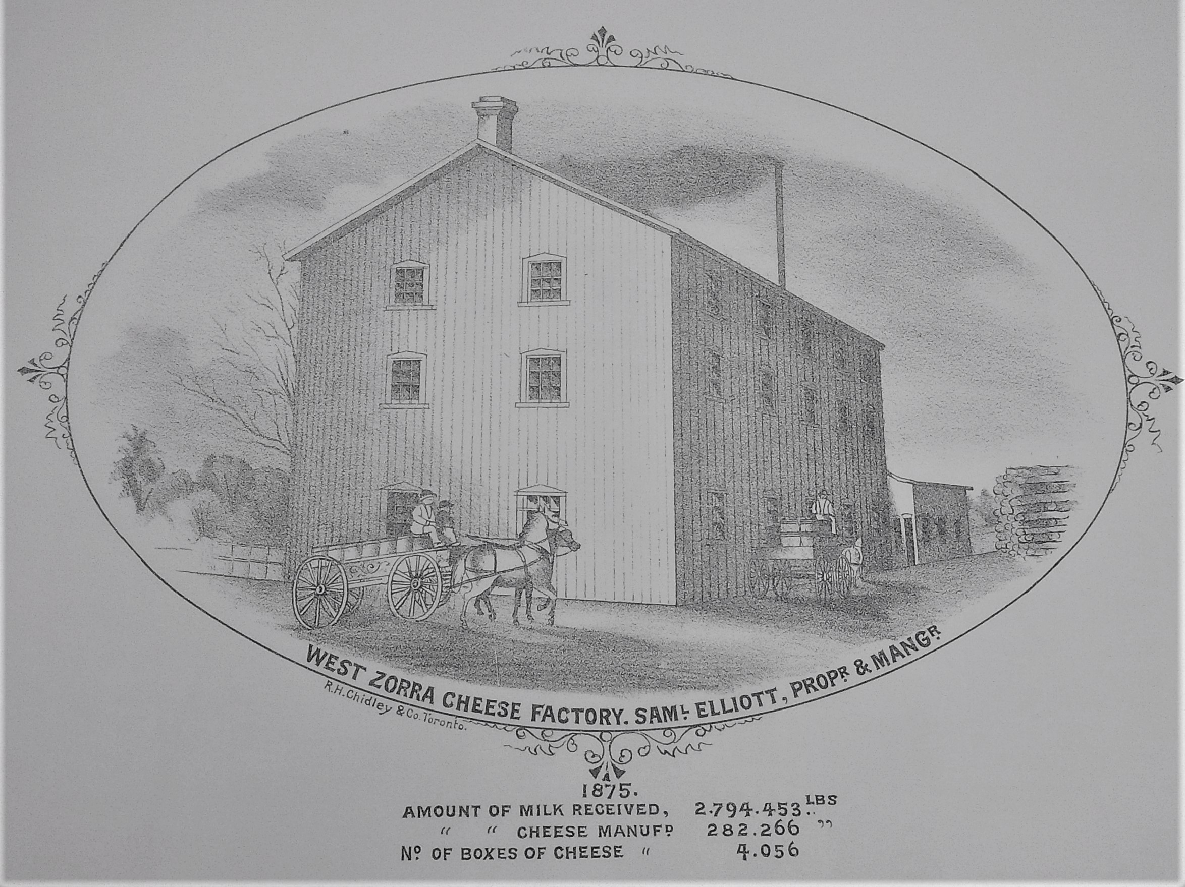 Elliott Cheese Factory, West Zorra, Oxford County, Ontario 1876